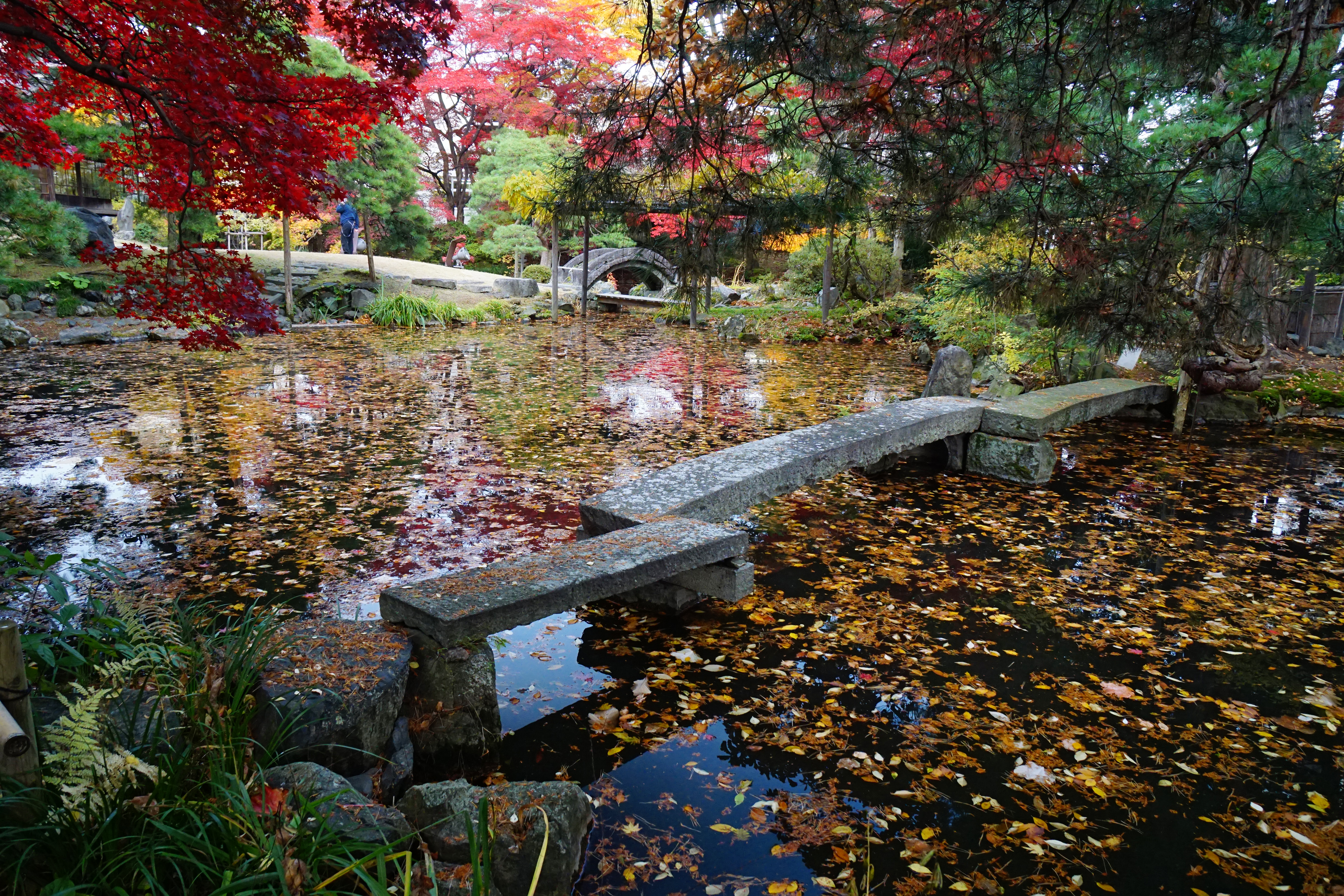 Nanshoso in Morioka, Iwate prefecture, Japan